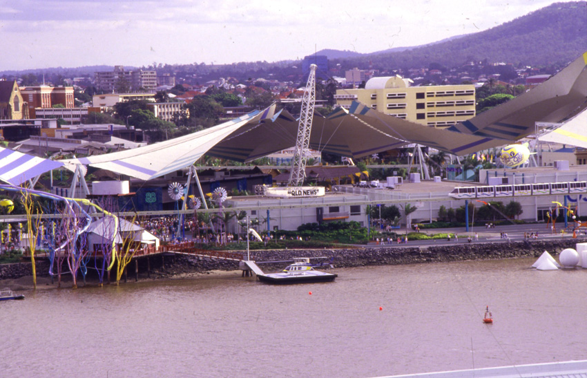 Expo 88 on South Bank